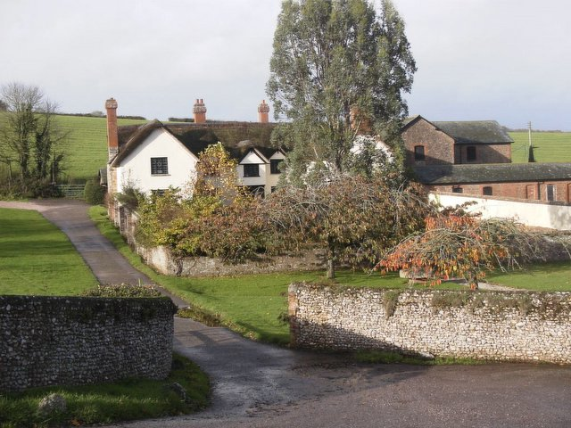 Sir Walter Raleigh's former home (birthplace) not far from East Budleigh - good walks near here.